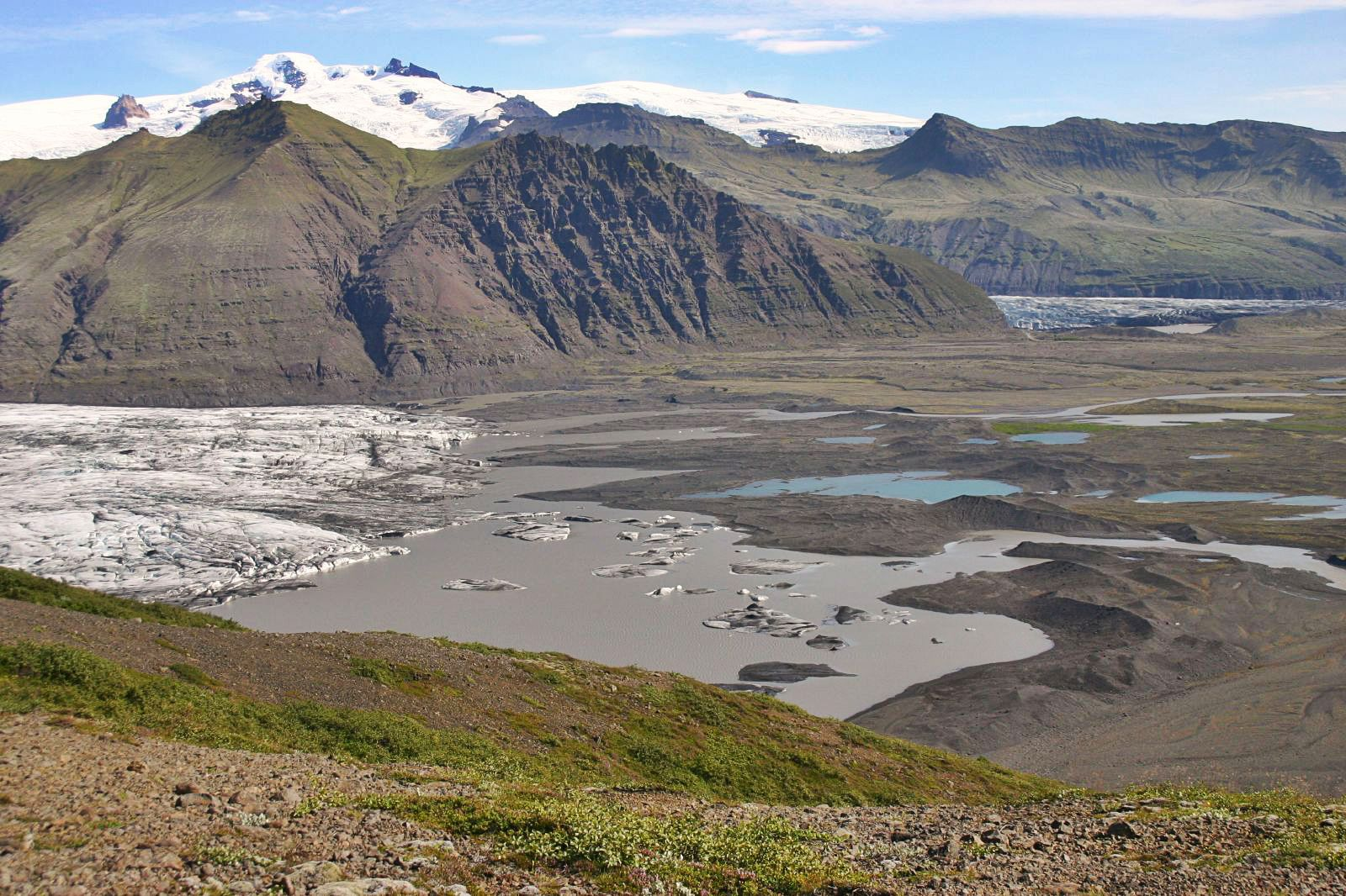 Skaftafellsjökull (Sjonarnípa Trail), Iceland